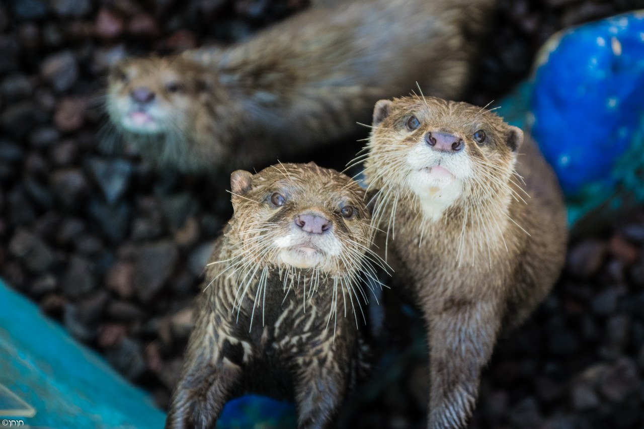 Wildlife and Plants of Israel